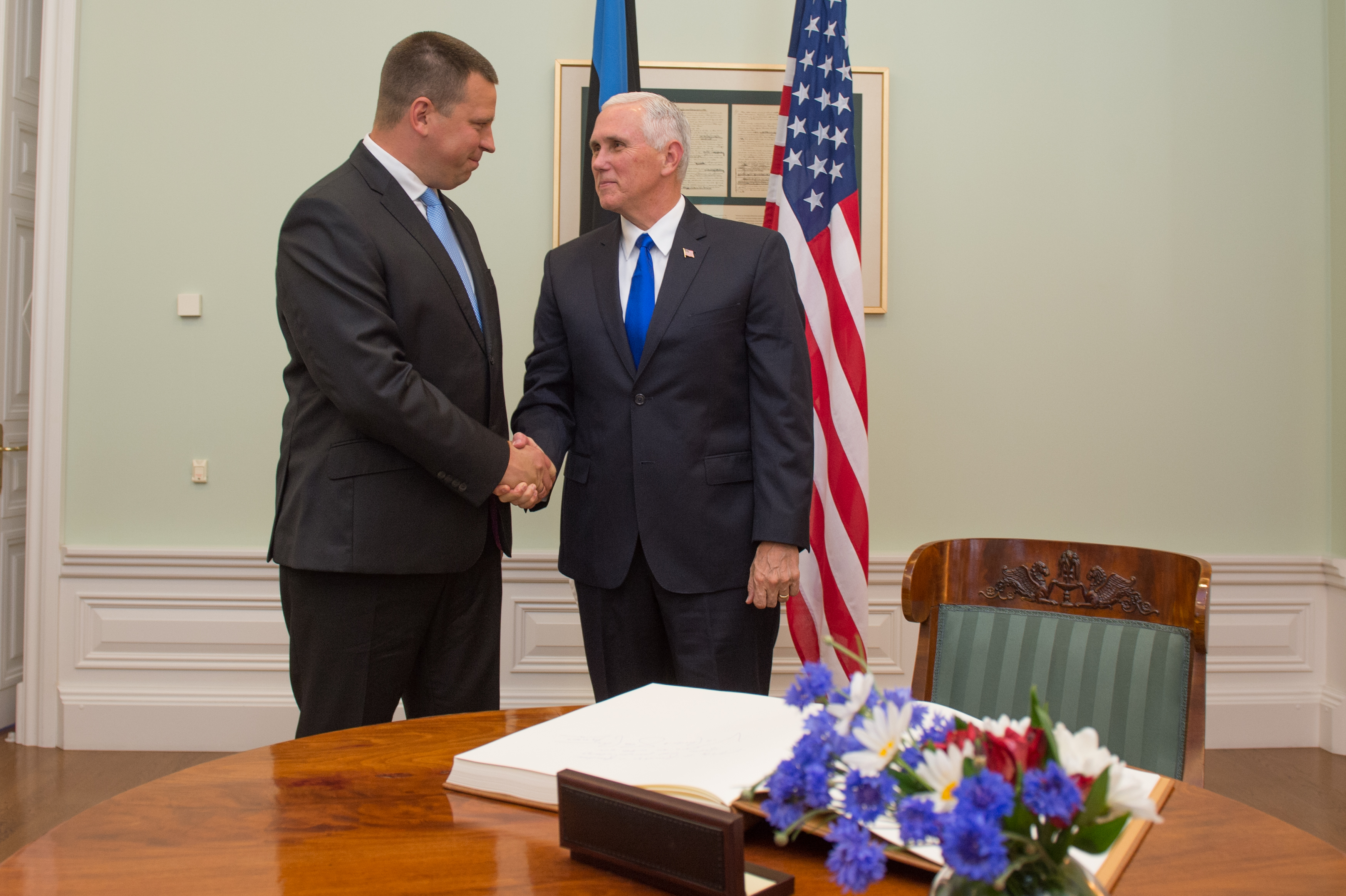 Vice President of the United States Mike Pence met with Prime Minister Jüri Ratas